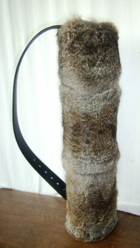 Quifer from hare fur skin